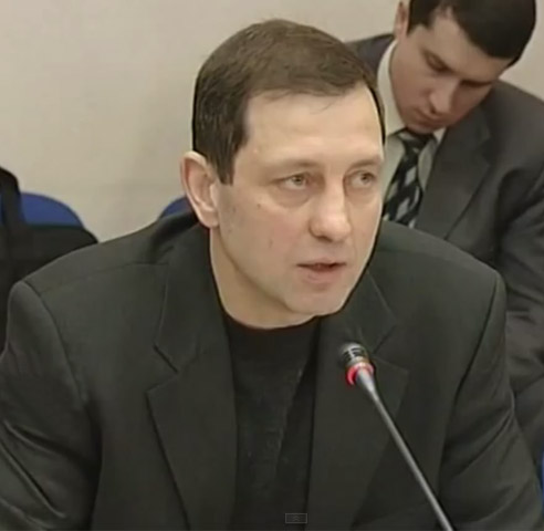 Valentyn Badrak, Ukrainian journalist